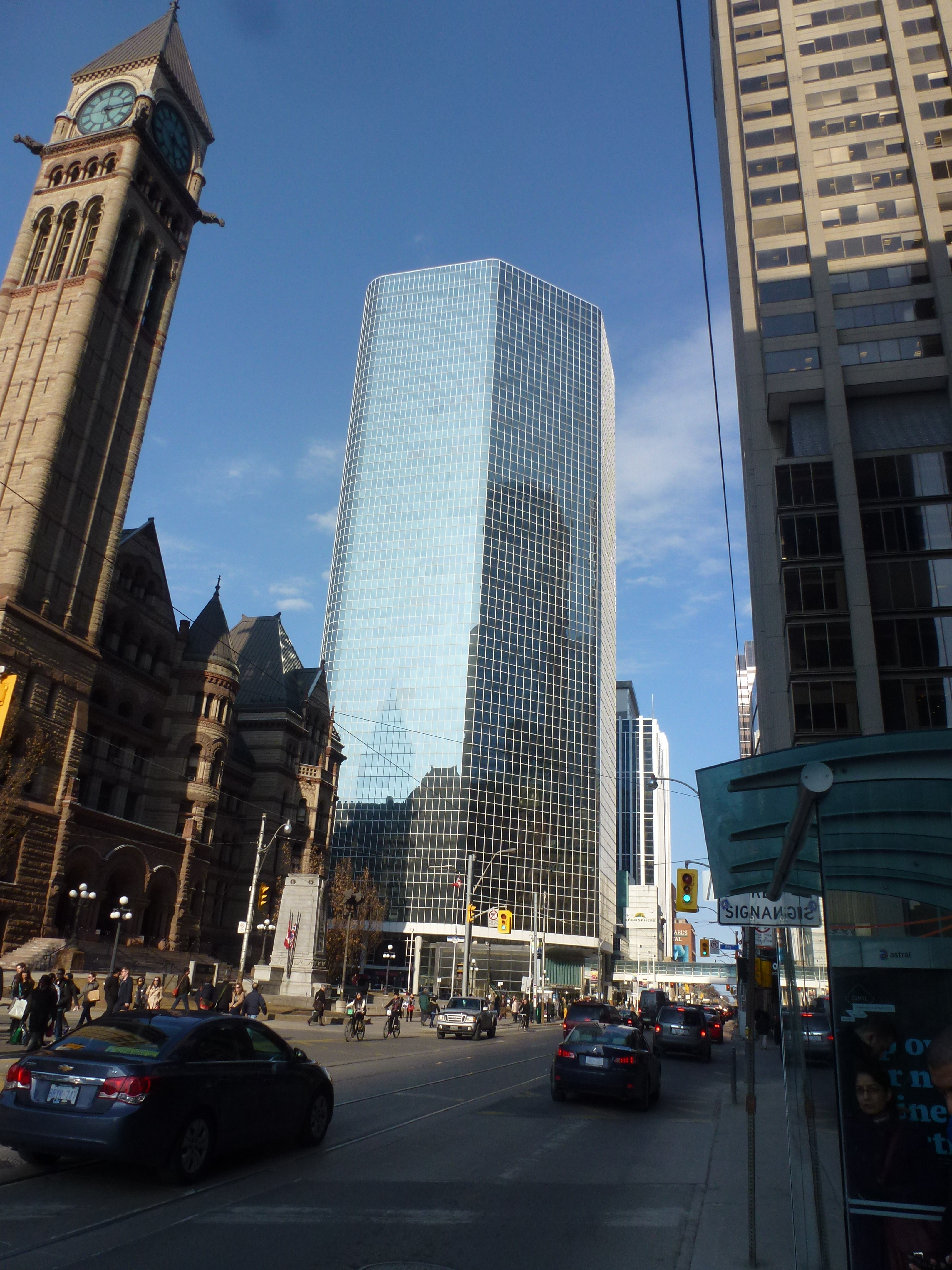 Looking north from Queen's Quay, 2014 04 01 (11).JPG